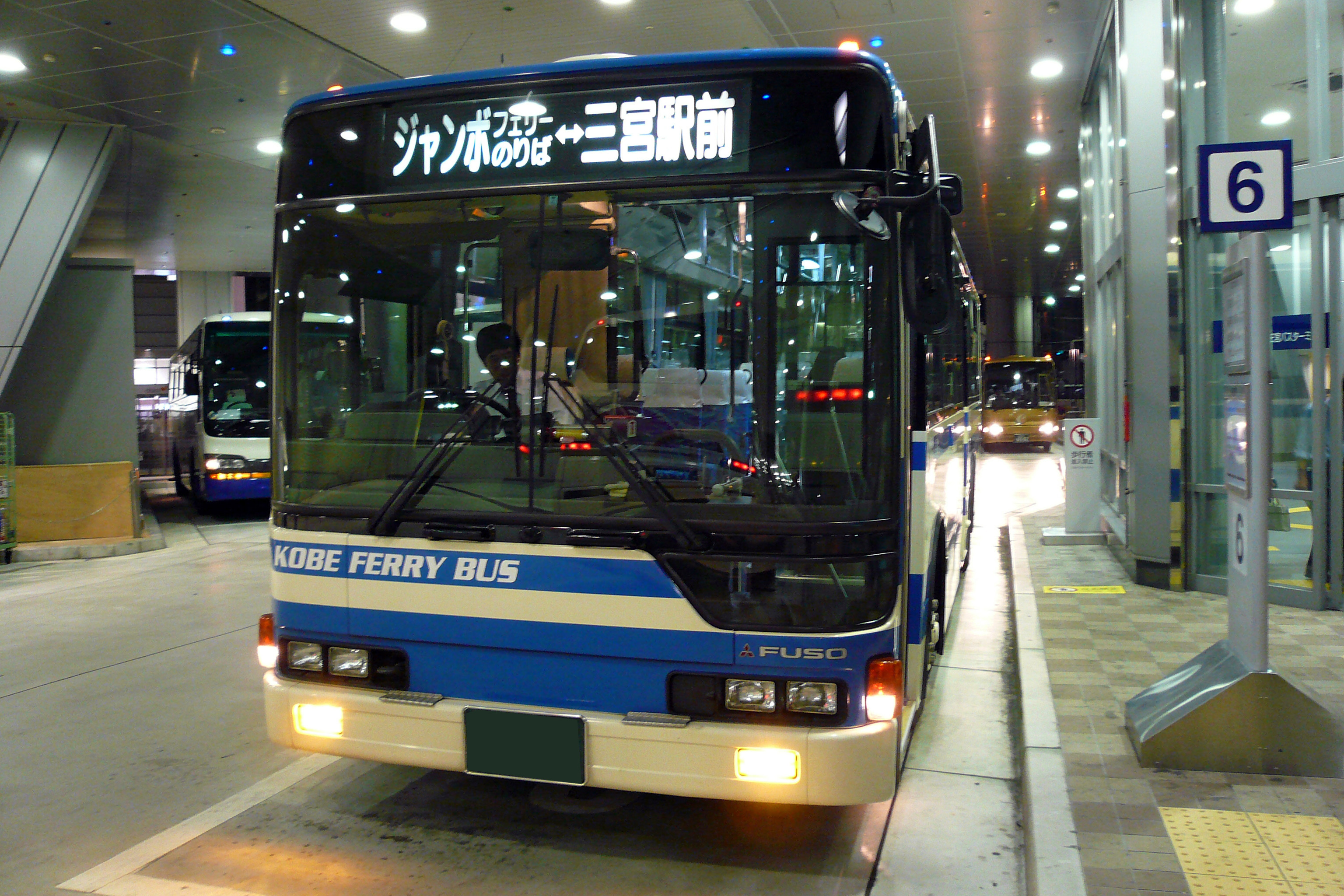 Kobe Ferry Bus at Sannomiya Bus Terminal (Mint Kobe 1F) in Kobe, Hyogo prefecture, Japan